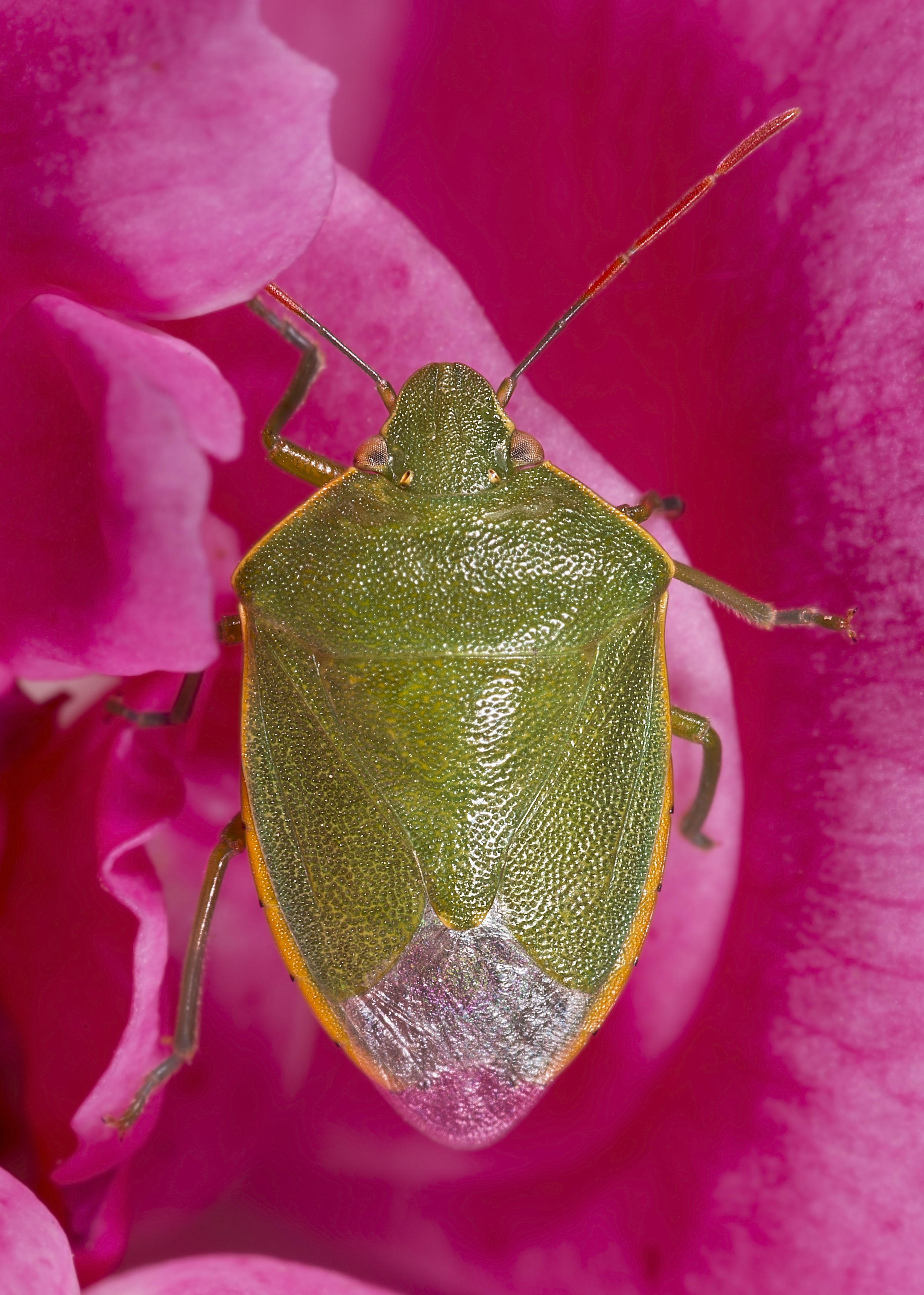 Acrosternum heegeri., on a rose.